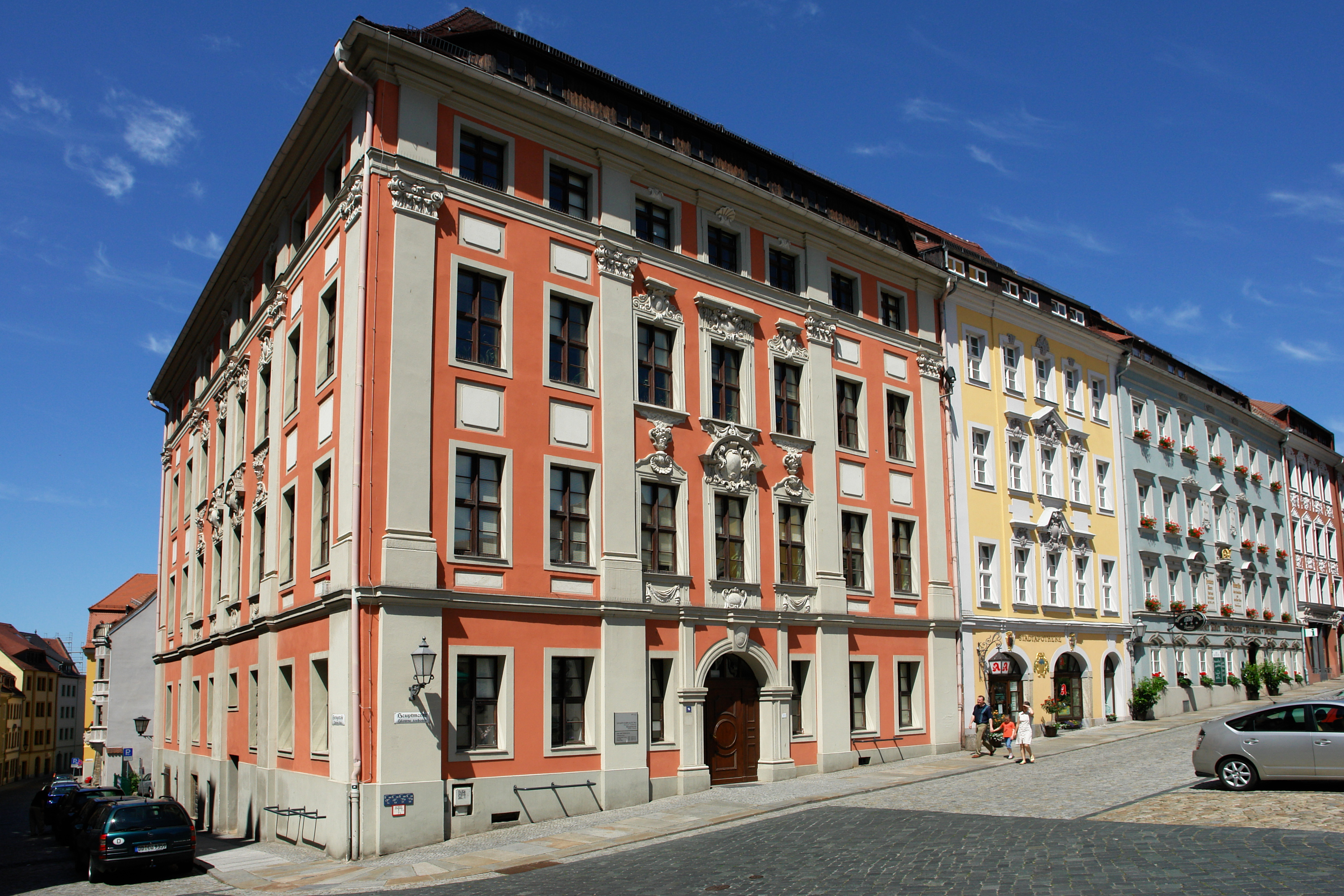 Buildings of old town in Bautzen, Germany.